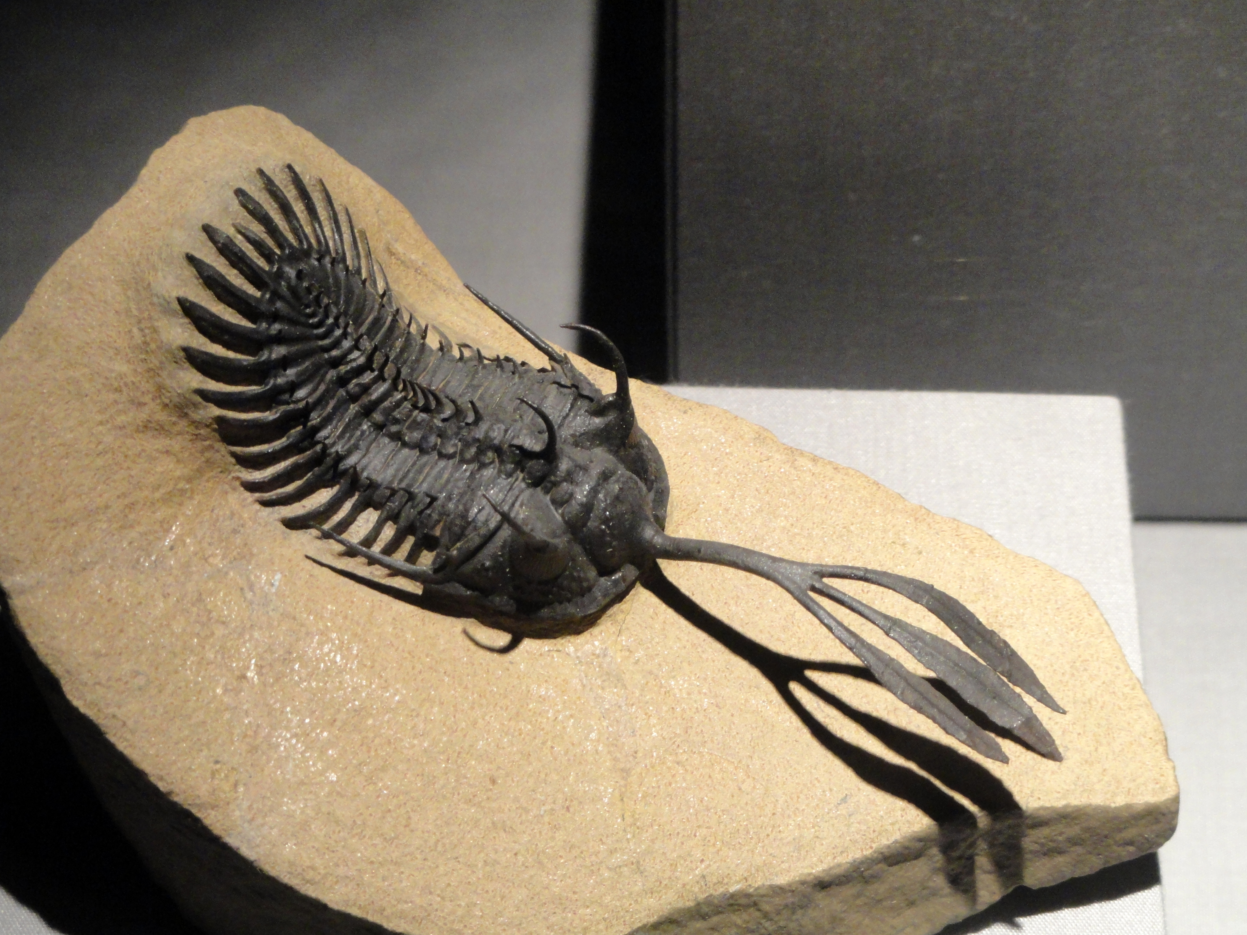 Exhibit in the Houston Museum of Natural Science, Houston, Texas, USA.